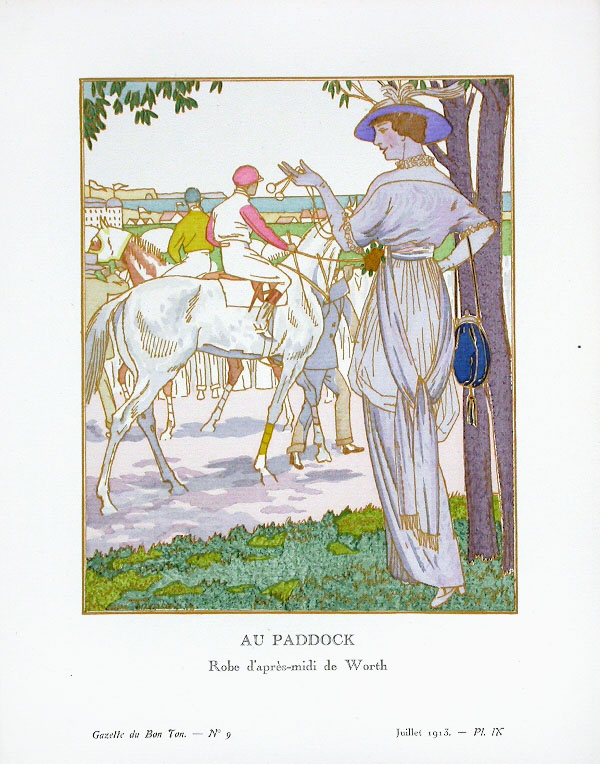 Fashion plate illustrating a dress by the House of Worth Title: "Au Paddock. Robe d'Apres-Midi de Worth."